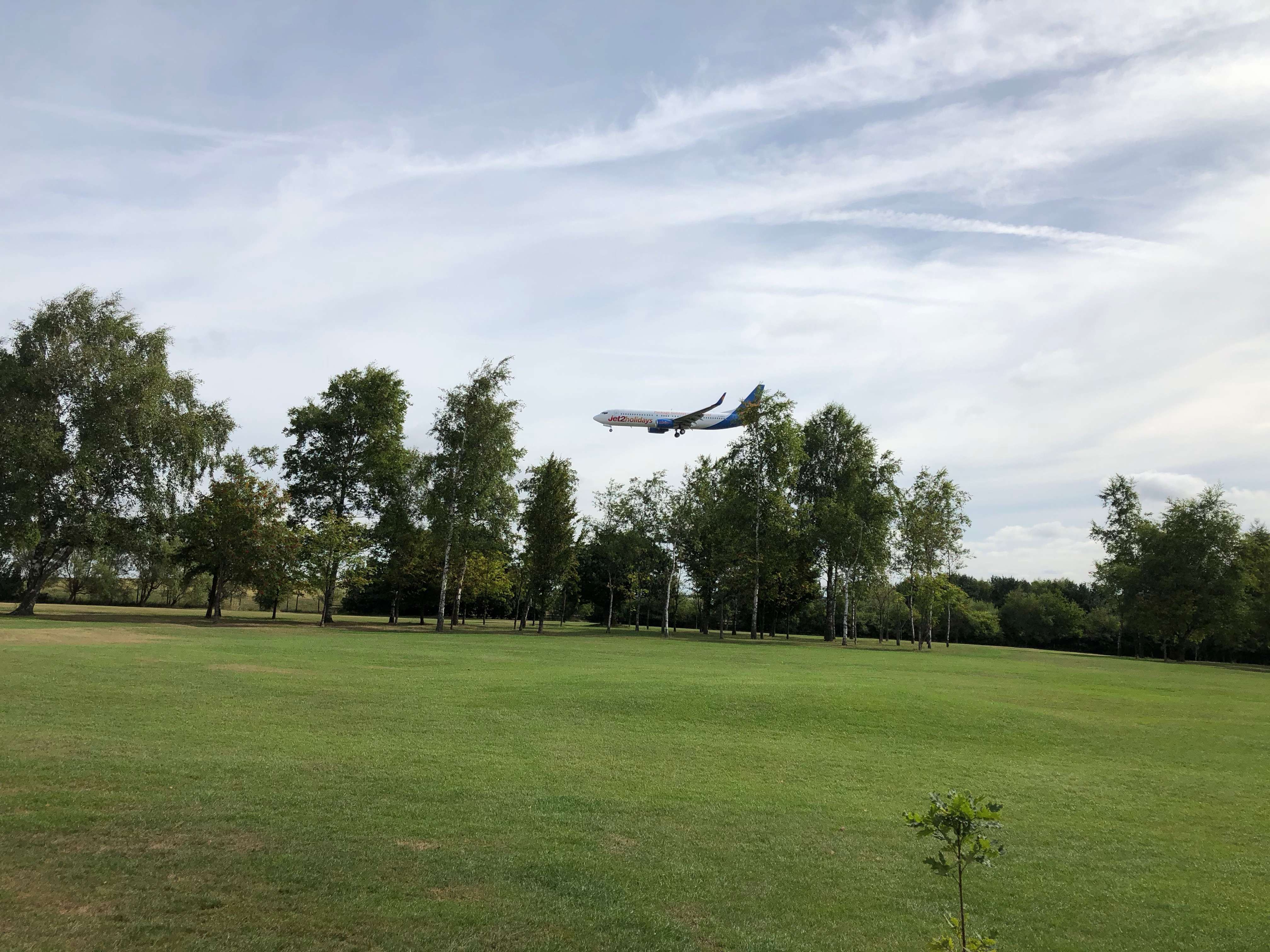 Picture of aeroplane landing at LBA taken from Horsforth Golf Club